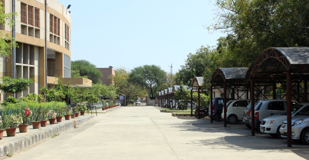 GEC-College Entry